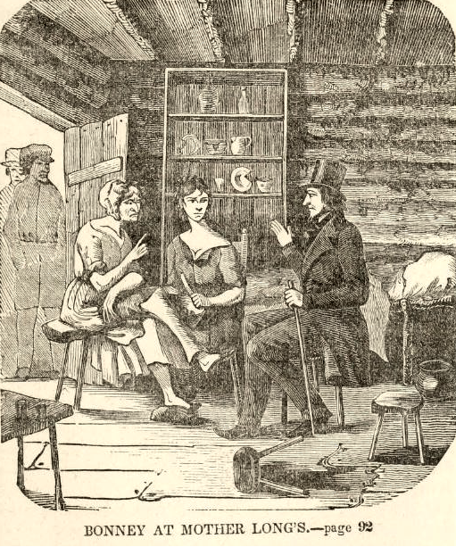 Illustration of Bonney At Mother Long's in the book, The Banditti of the Prairies